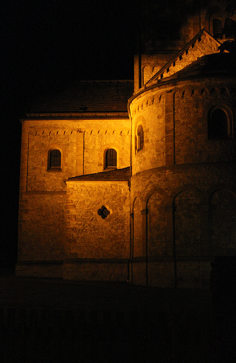 Illuminated parish church St. Maximilian Niesen (Willebadessen) at night